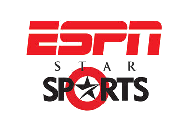 The former wordmark logo for ESPN Star Sports